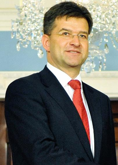 Remarks by Secretary Clinton and Slovak Foreign Minister Miroslav Lajcak Before Their Meeting. (State Dept Photo by Michael Gross.)